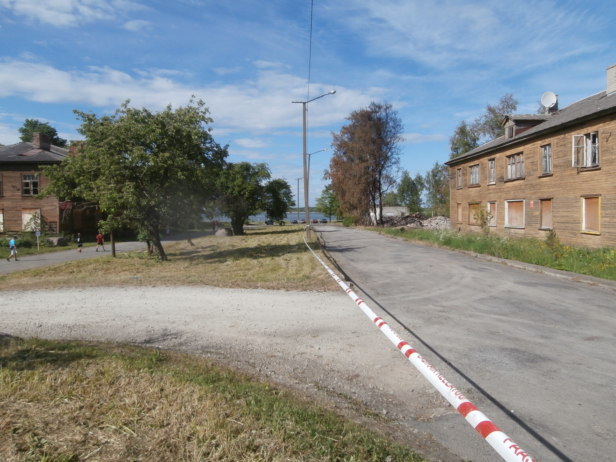 Sepa tänav in Kopli Tallinn 4 June 2016 (houses Sepa 31 (left) and Sepa 20 (right))